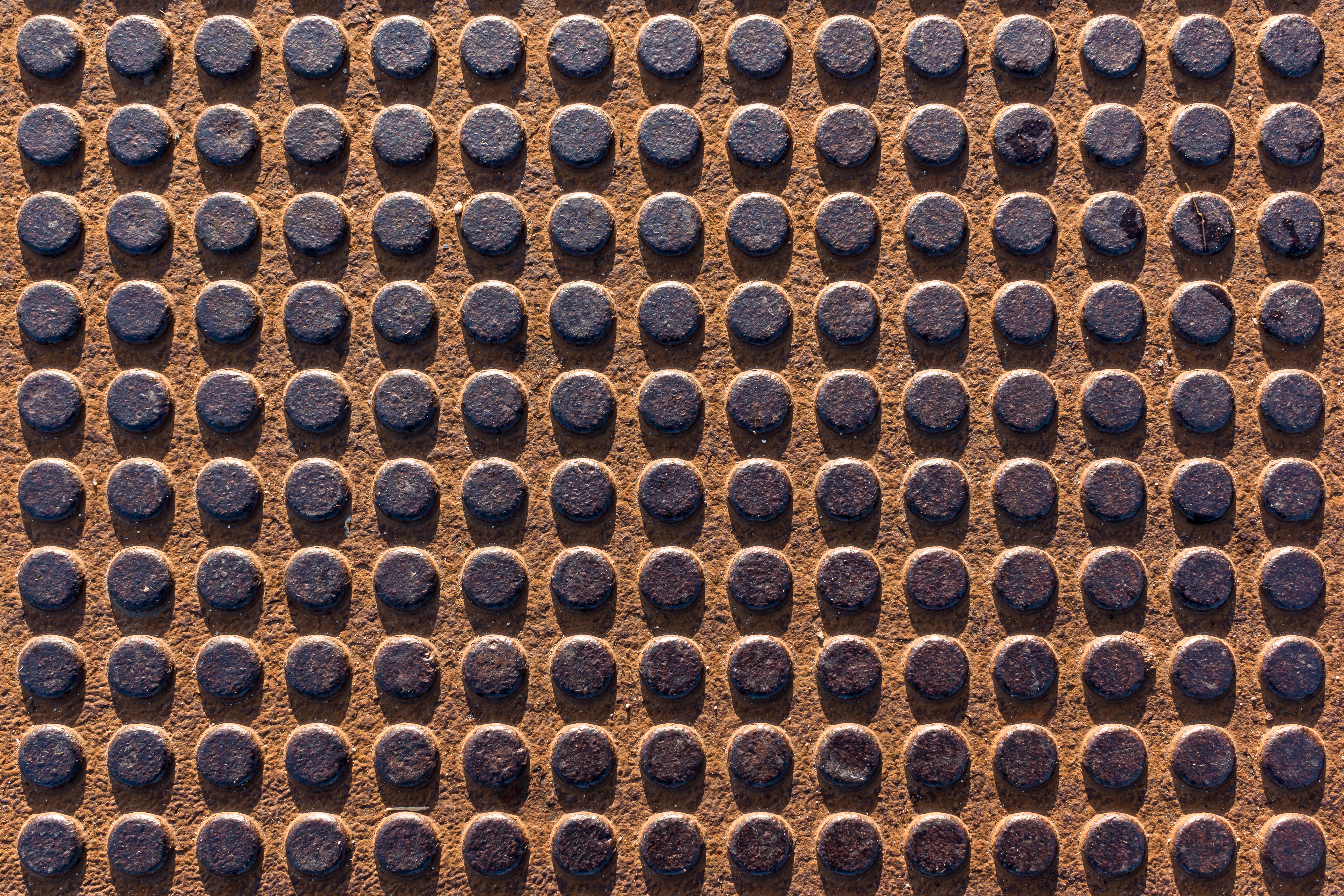 Sheet metal at Nyhavn, Copenhagen, Denmark.